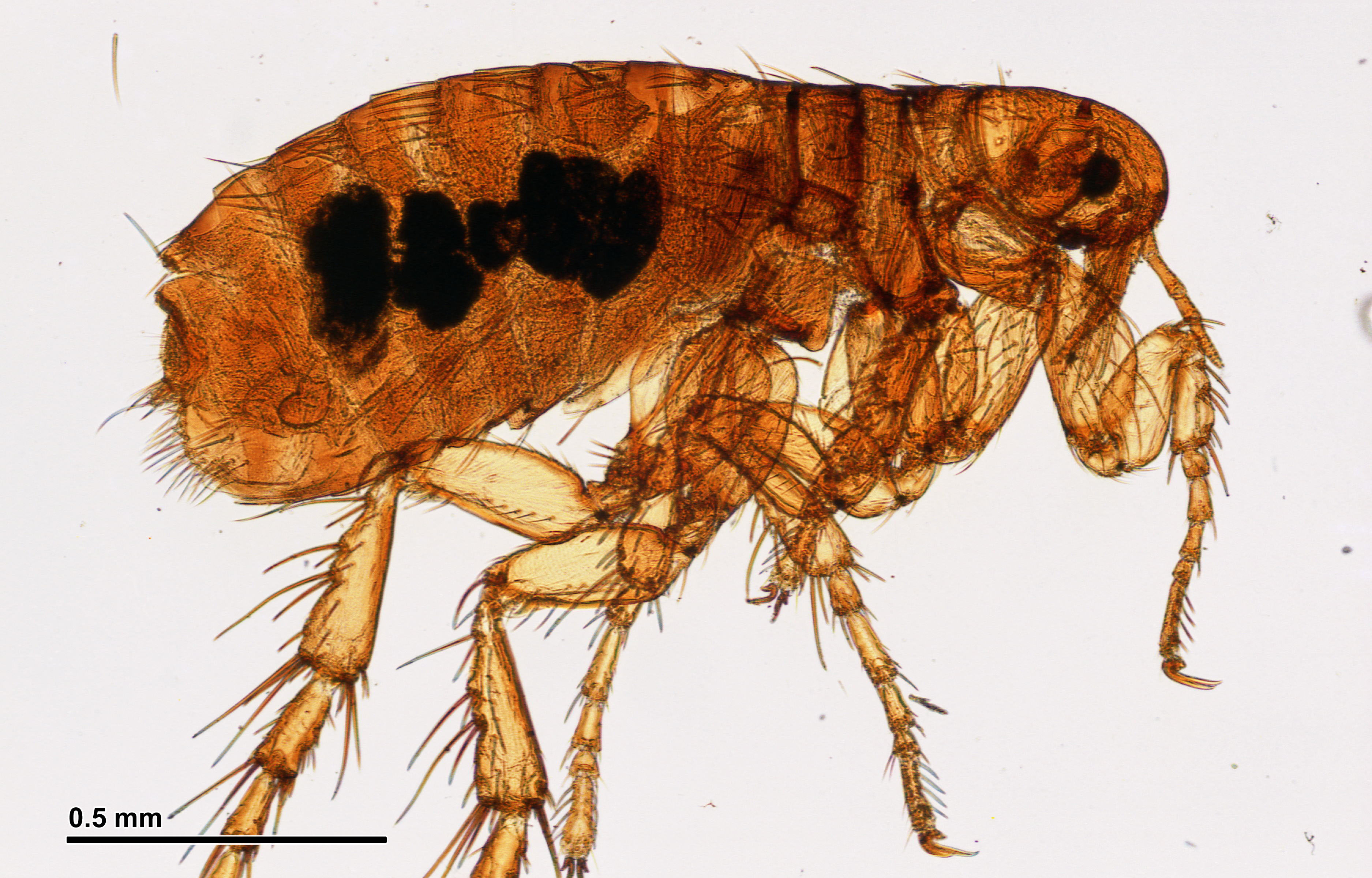 Flea (Siphonaptera): Aphaniptera; total preparation. Optical microscopy technique: Bright field. Magnification: 120x (for picture width 26 cm ~ A4 format).